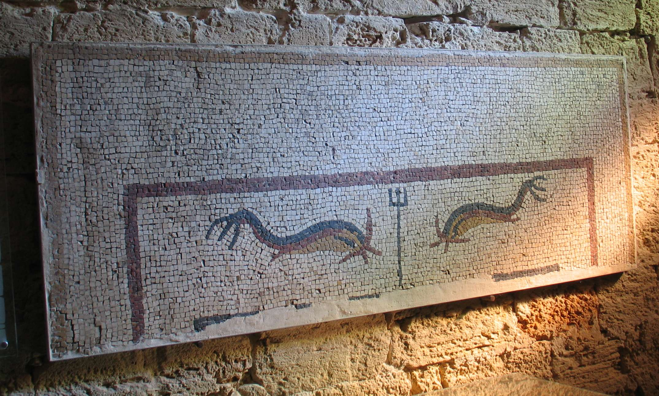 Ha-Mizgaga Museum, kibutz Nahsholim, Israel. Mosaic with dolphins, 1st-2nd centuries.